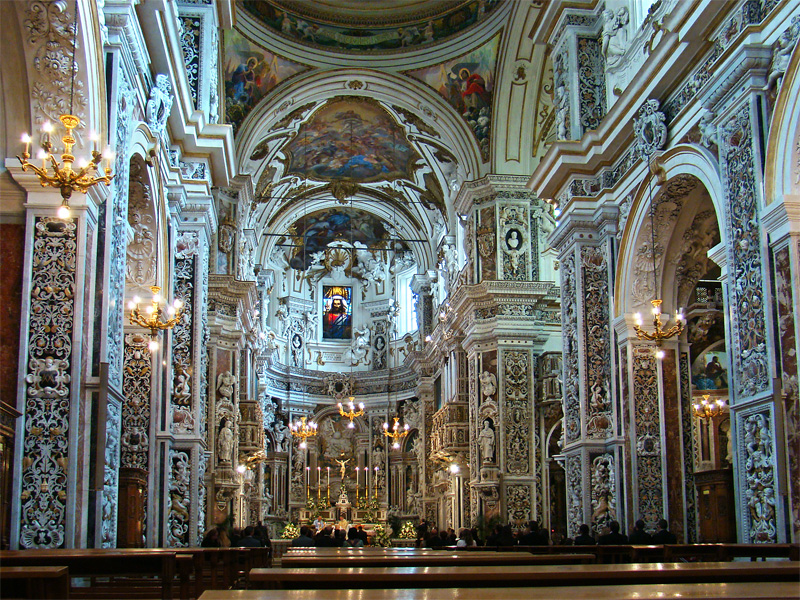 Church of the Gesu, Palermo, Sicily, Italy.